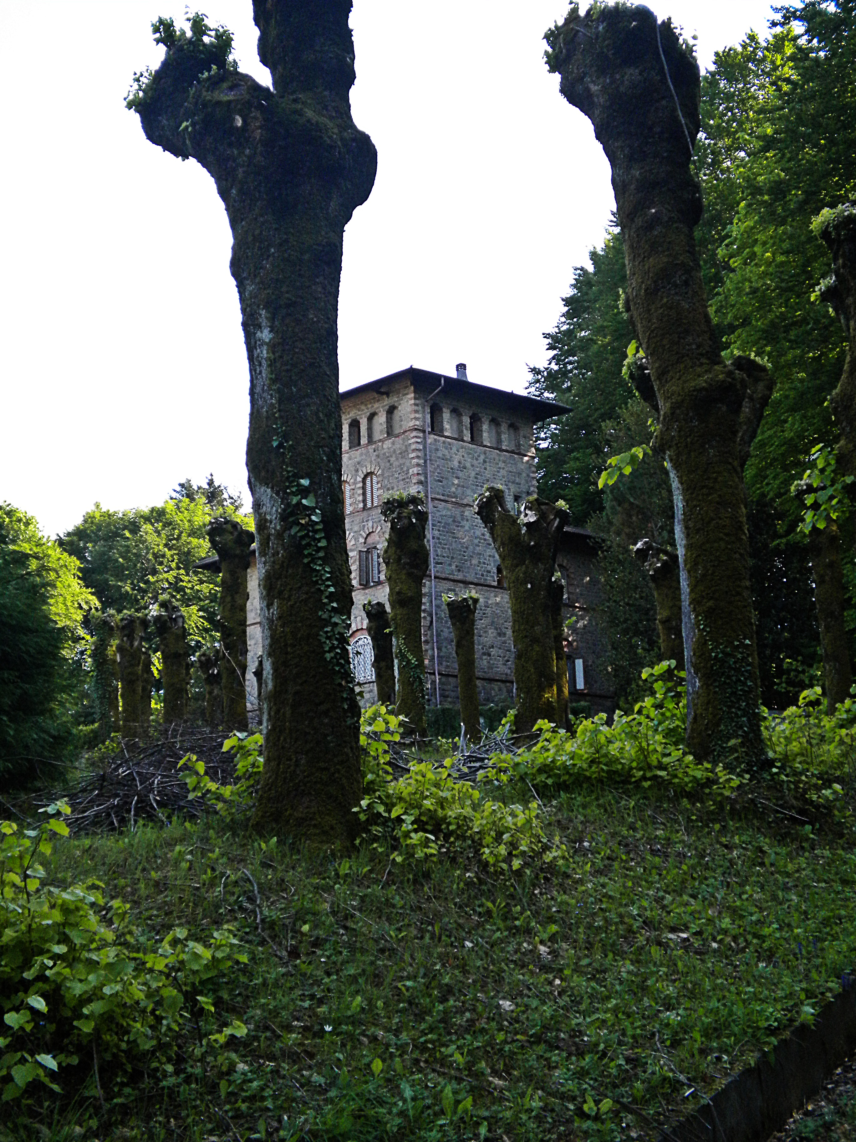 villa